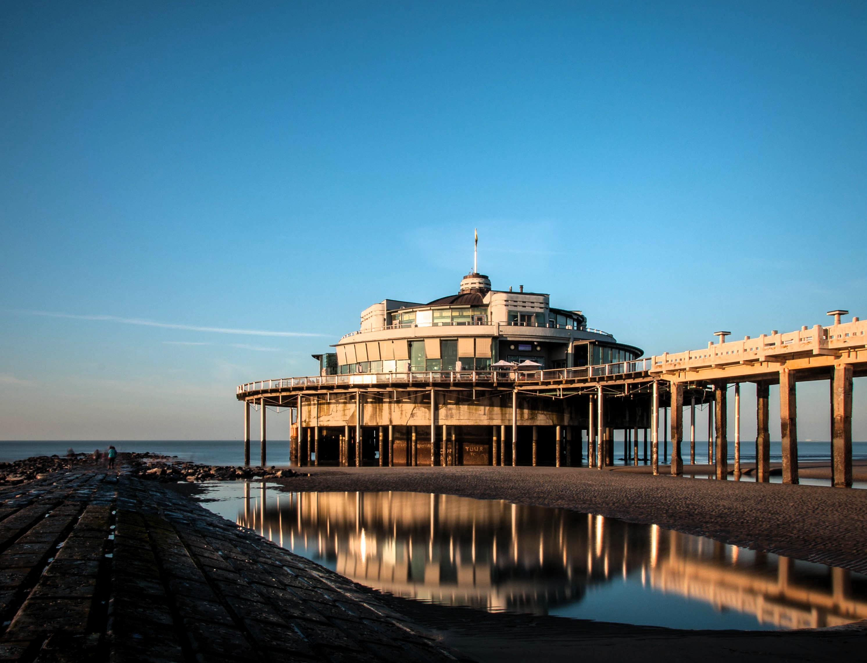 This photo of immovable heritage has been taken in the Flemish Region